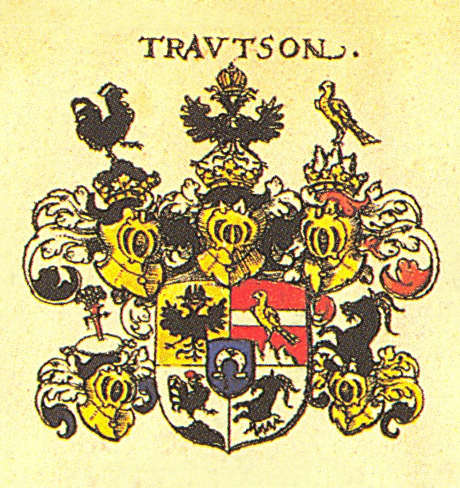 Coat of arms of Trautson (Counts, Prince)